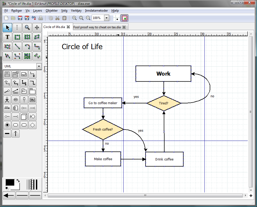 I, Knut Sindre Åbjørsbråten , made this image and release it into the public domain to be used for any purpose without restrictions or need for accreditation. The image was previously removed due to "lack of lisence" or similar, despite me sending an email to the permissions account at Wikipedia.